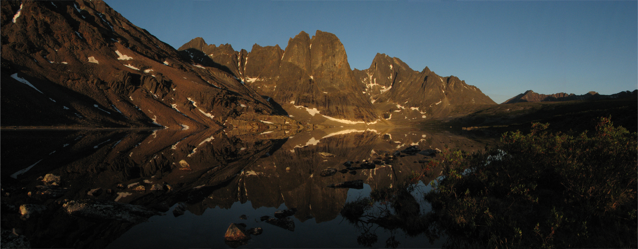 Mount Monolith as seen at dawn, from Divide Lake in Tombstone Territorial Park, Yukon, Canada.